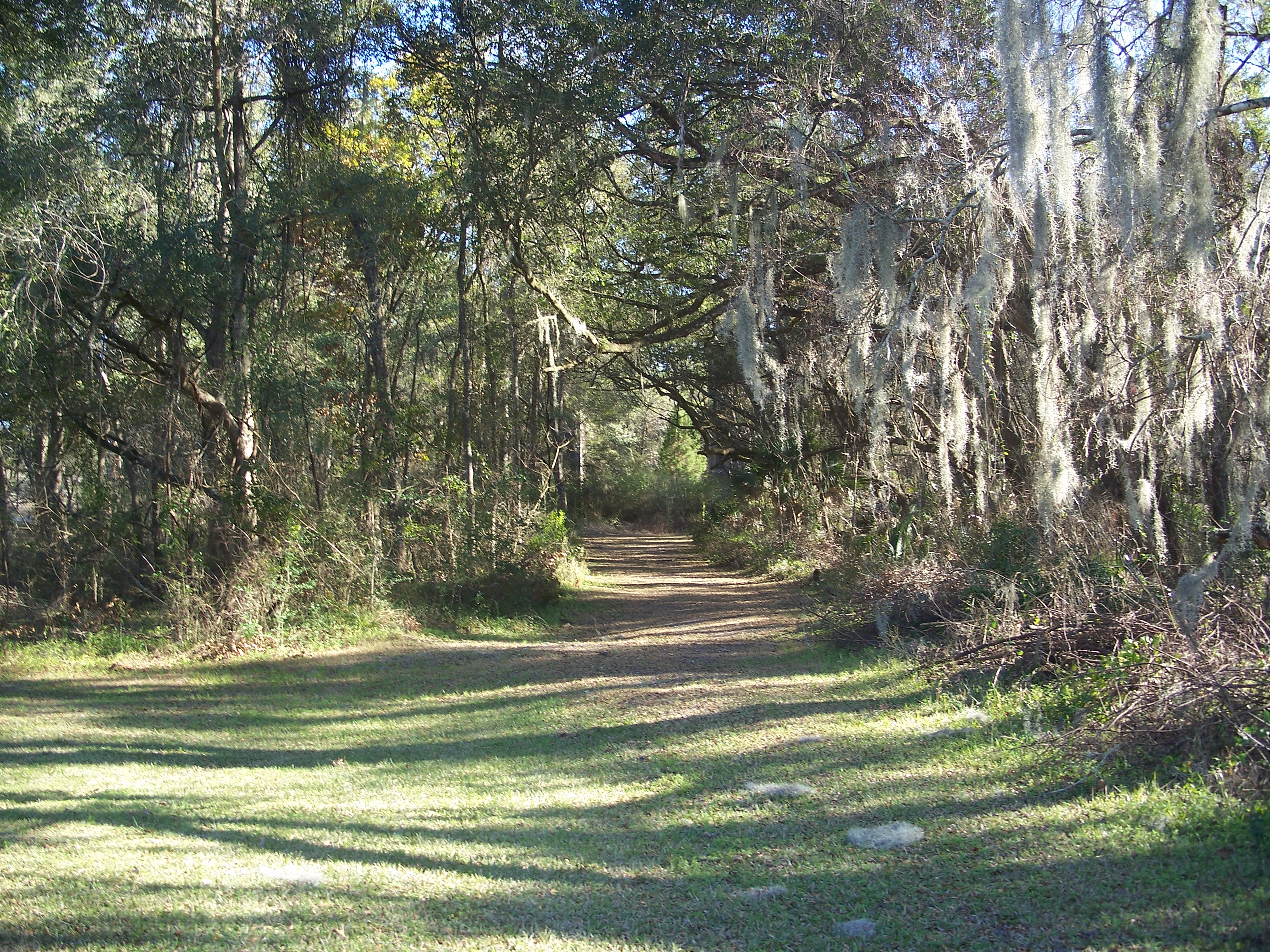 Marion County, Florida: Cross Florida Barge Canal: Start of historic ship canal trail.